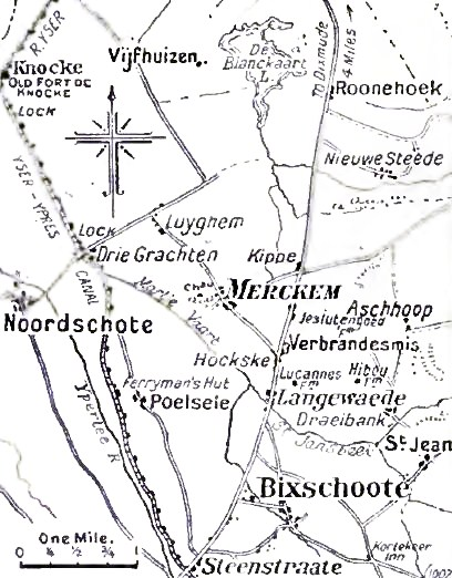 French First Army area of operations, Flanders 1917